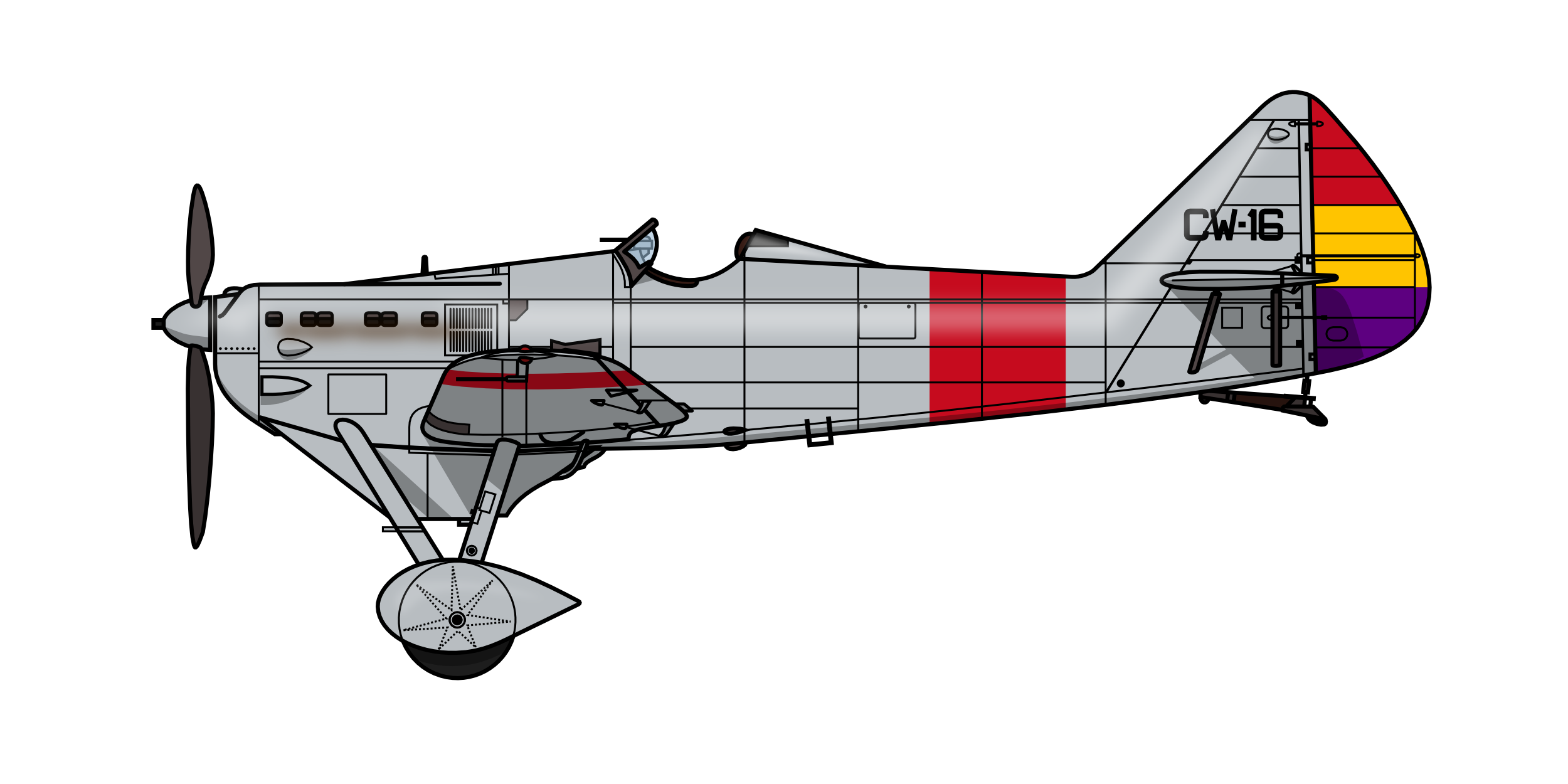 Profile of Dewoitine D.510TH number 16. This aircraft was operated by the Spanish Republican Air Force during the Spanish Civil War. (Tail number 16 is uncertain).